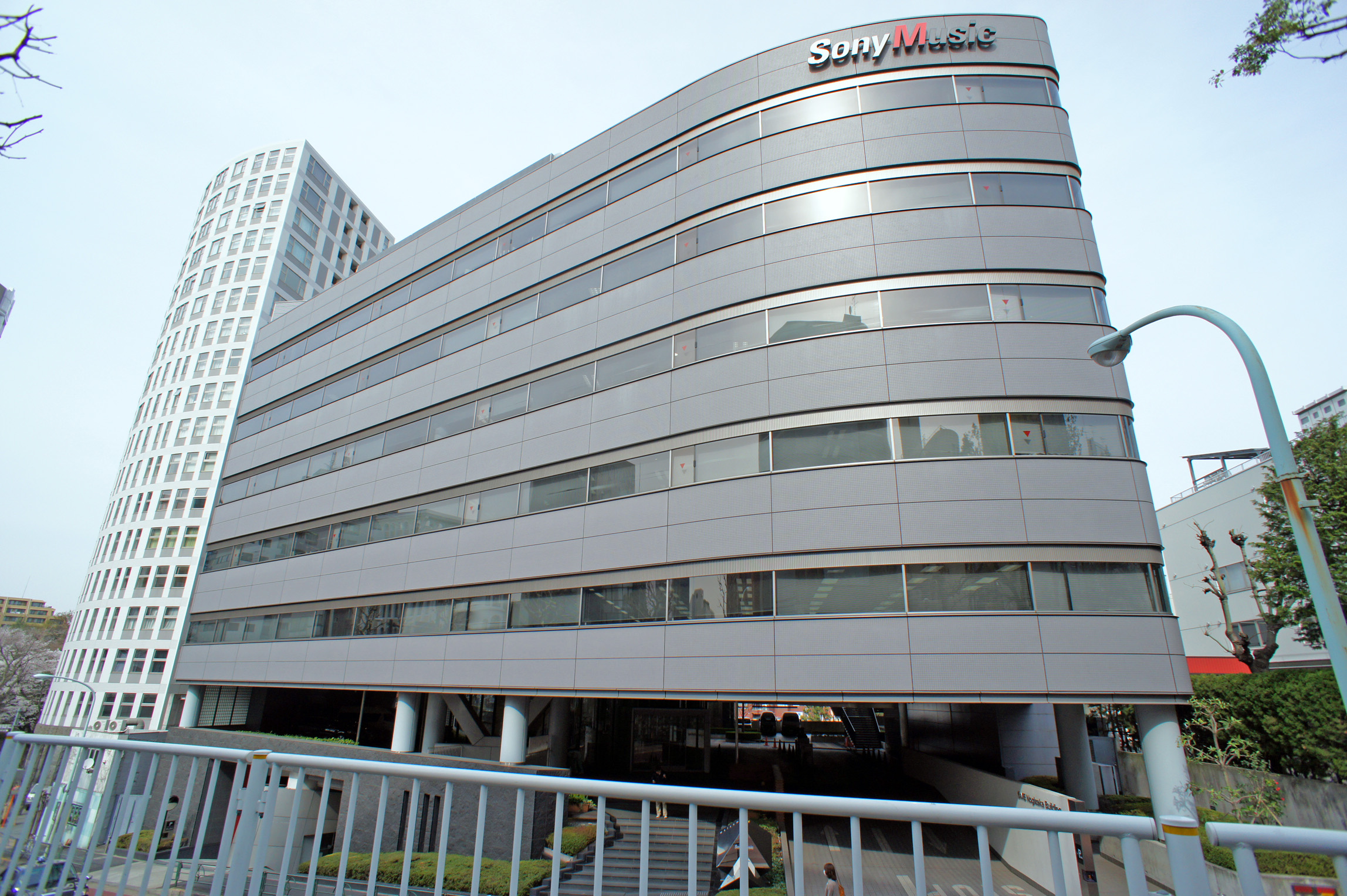 SME Nogizaka Building. Sony Music Studios Tokyo is attached below the ground.